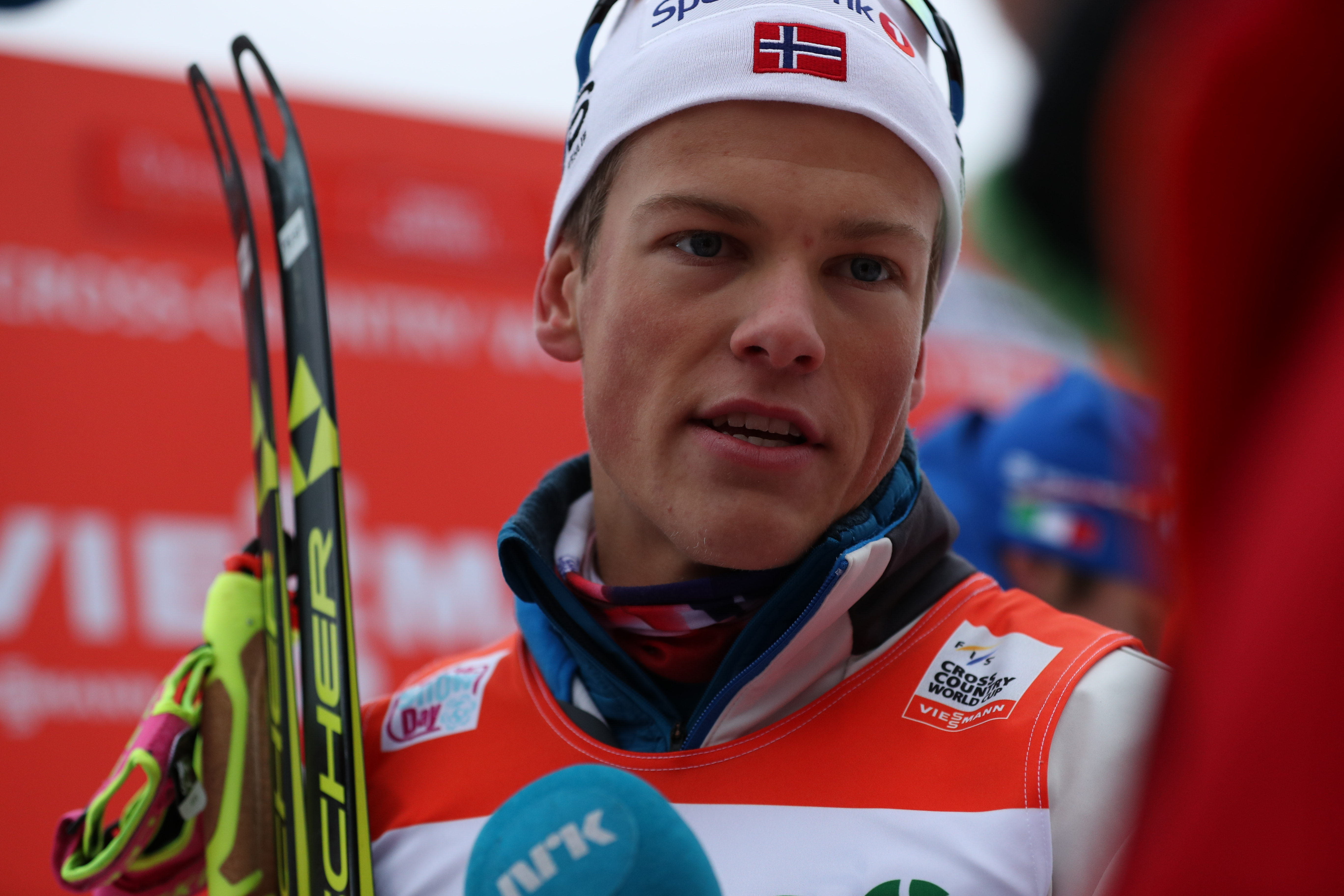 Mens Award Ceremony at the FIS Cross-Country World Cup Dresden 2018: Johannes Høsflot Klæbo